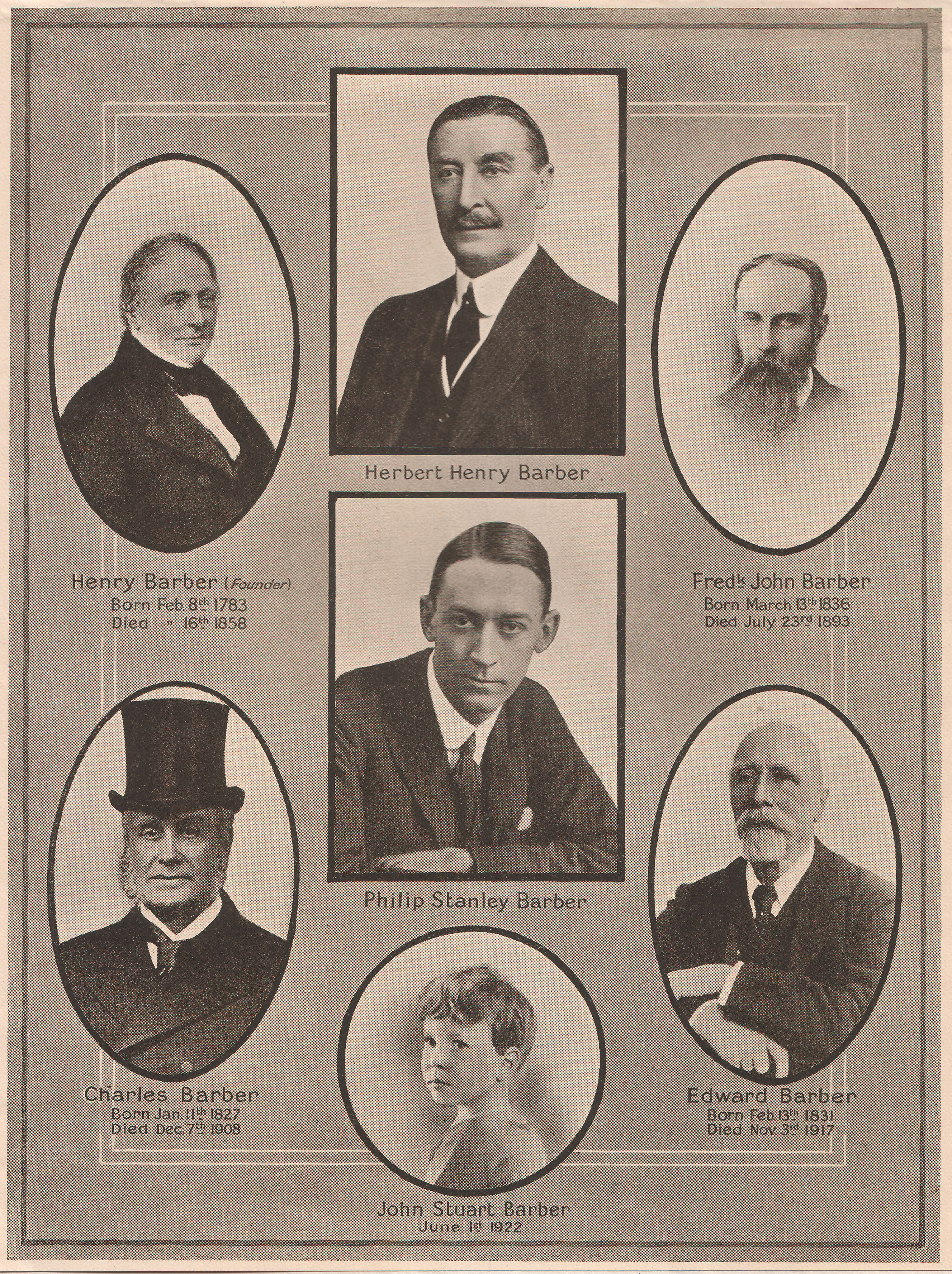 Edward Barber & Son, London: "The Story of a Hundred Years 1928-1927". Merchants of bristles, horse and other raw hair, furs and skins. For a Century the House of Barber has kept the family name alive. Edward Barber & Son, London, 'The Story of a Hundred Years 1928-1927' (05).jpg